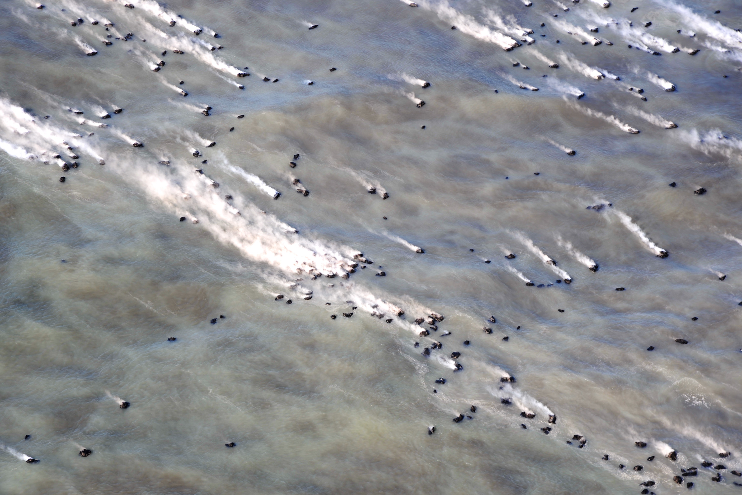 Lava balloons are bubbles formed by lava and filled with gas that float on the water surface. Examples photographed here were observed during the 2011 eruption of El Hierro, Canary Islands